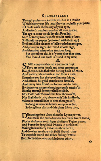 A facsimile of the original printing of Shakespeare's Sonnet 18.